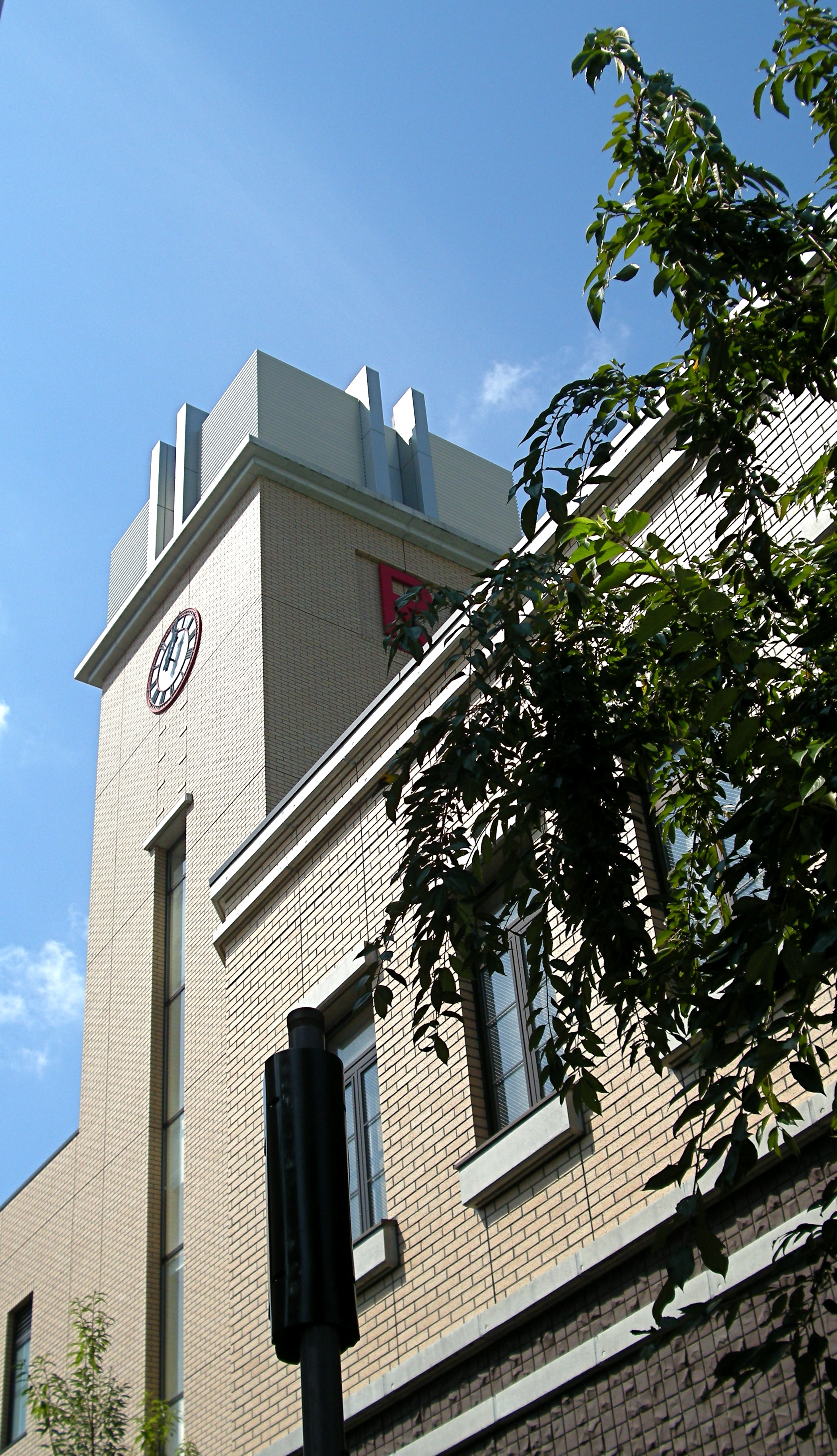 Ritsumeikan Primary School (Kyoto, Japan)